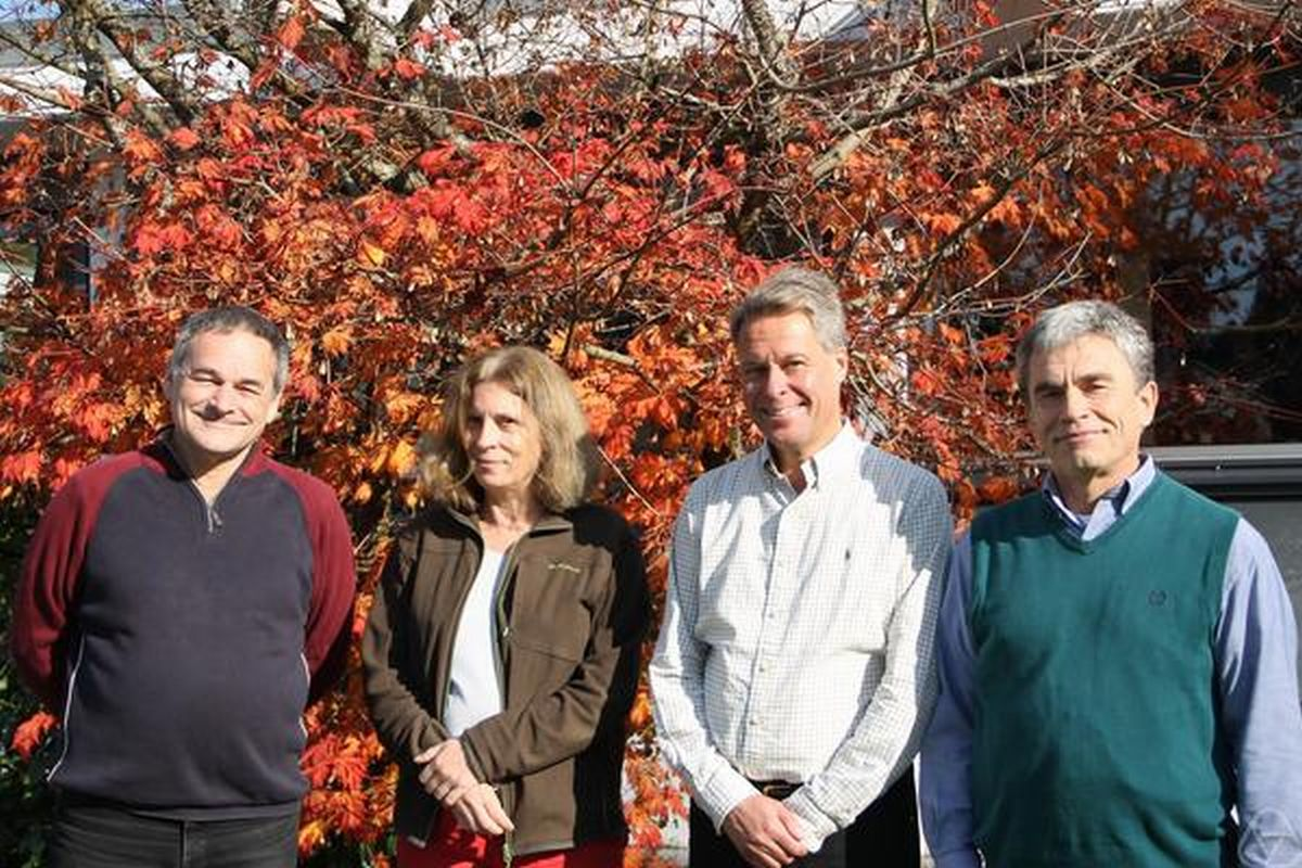 From left: Franz-Viktor Kuhlmann, Zoé Chatzidakis, Jochen Koenigsmann, Florian Pop, Oberwolfach 2014